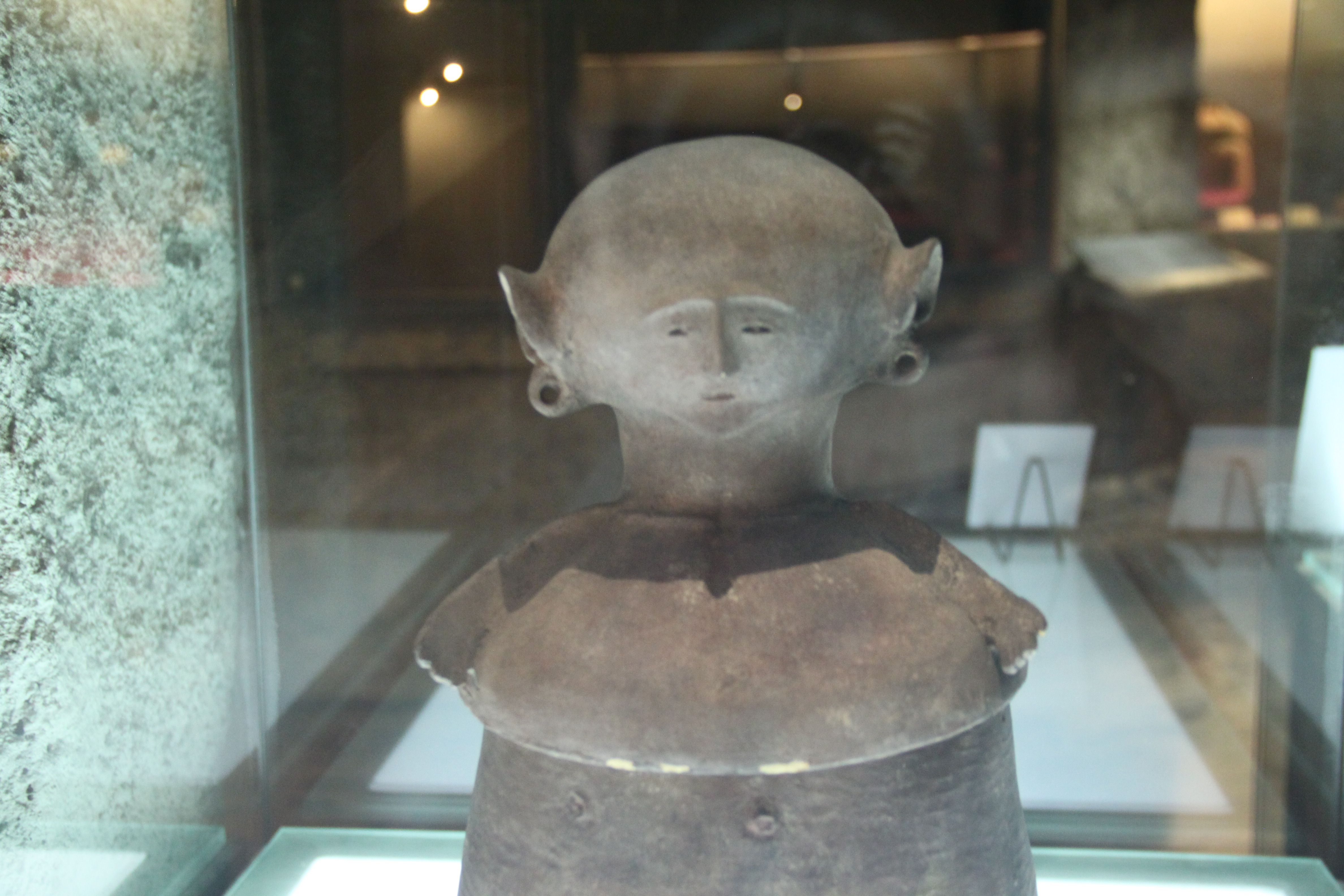 Mindanao Metal Age Burial Pottery Gallery, Museum of the Filipino People, Rizal Park, Manila, Philippines. Complete indexed photo collection at .